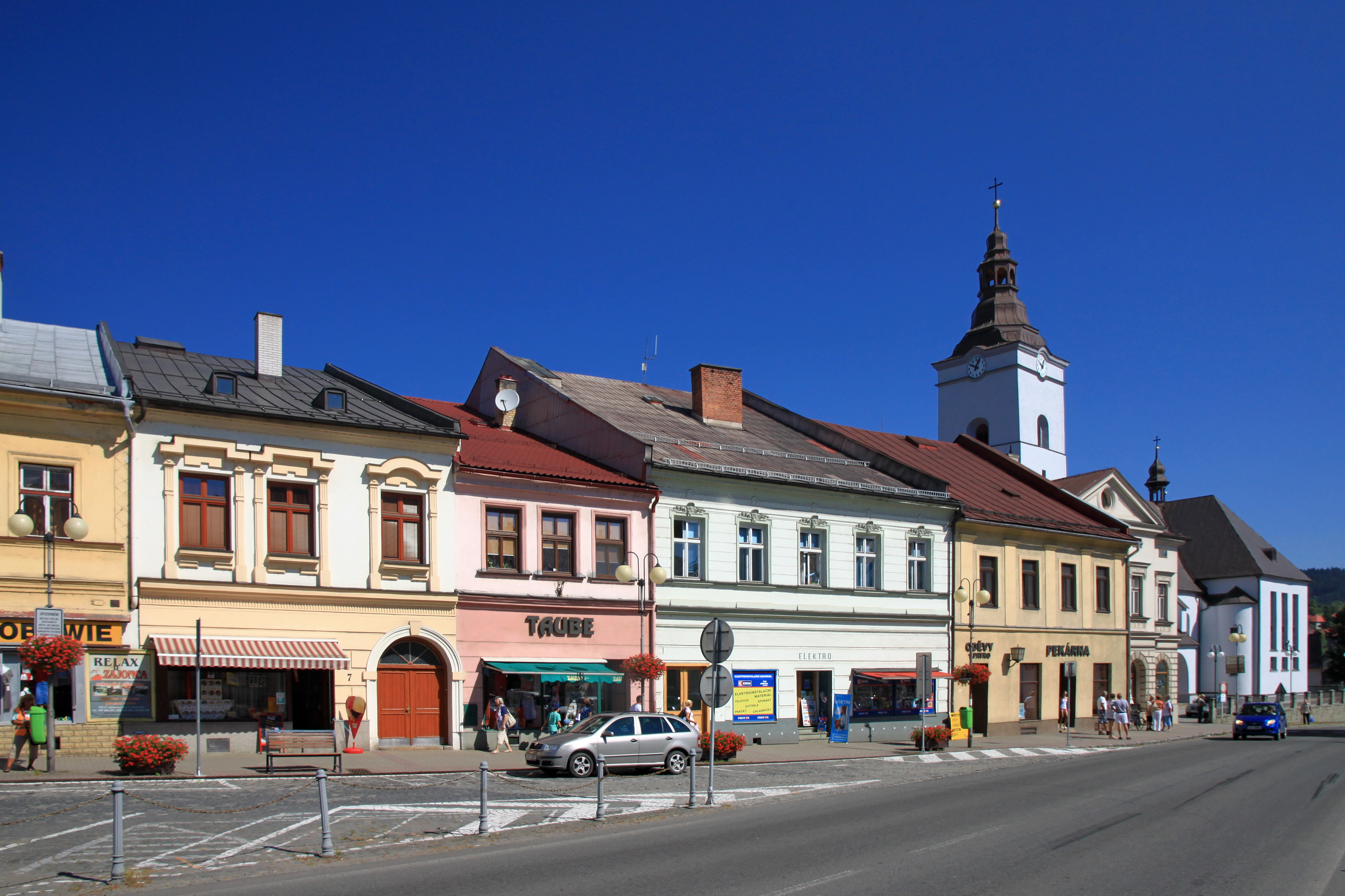 Jablunkov, Mariánské square